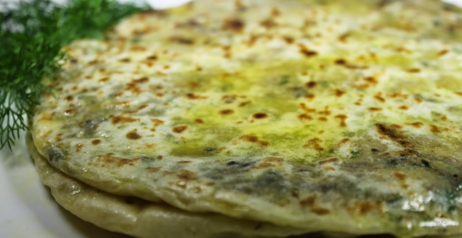 Balkarian thin cake with various filling (mainly cheese and meat)